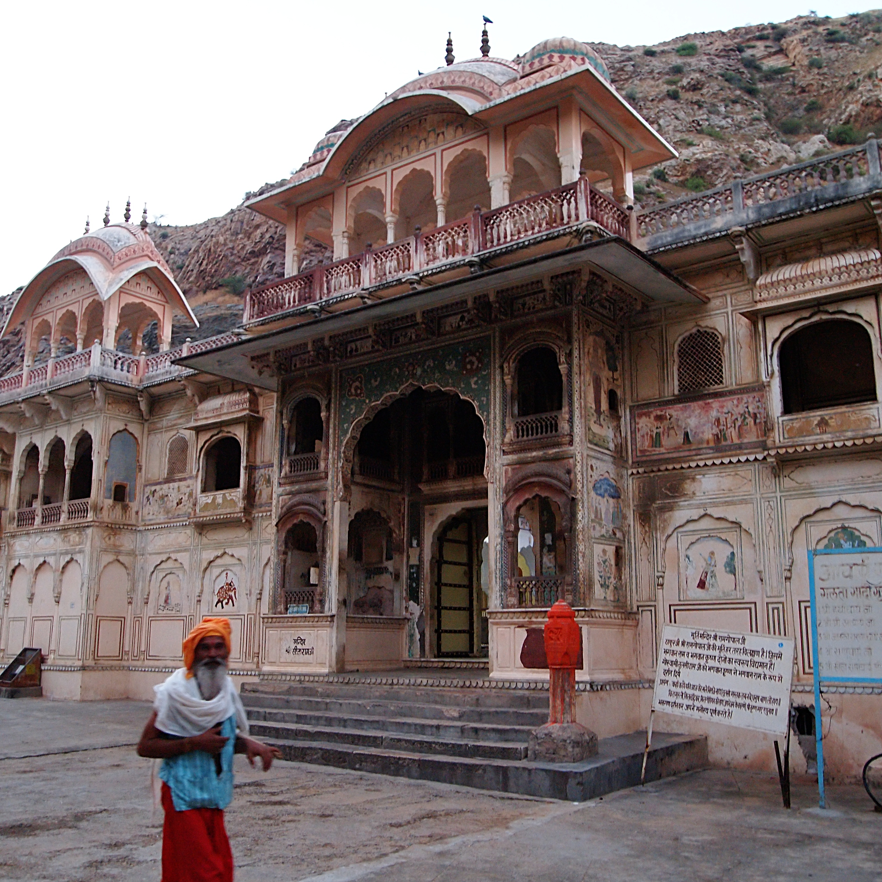 Temples of Galta